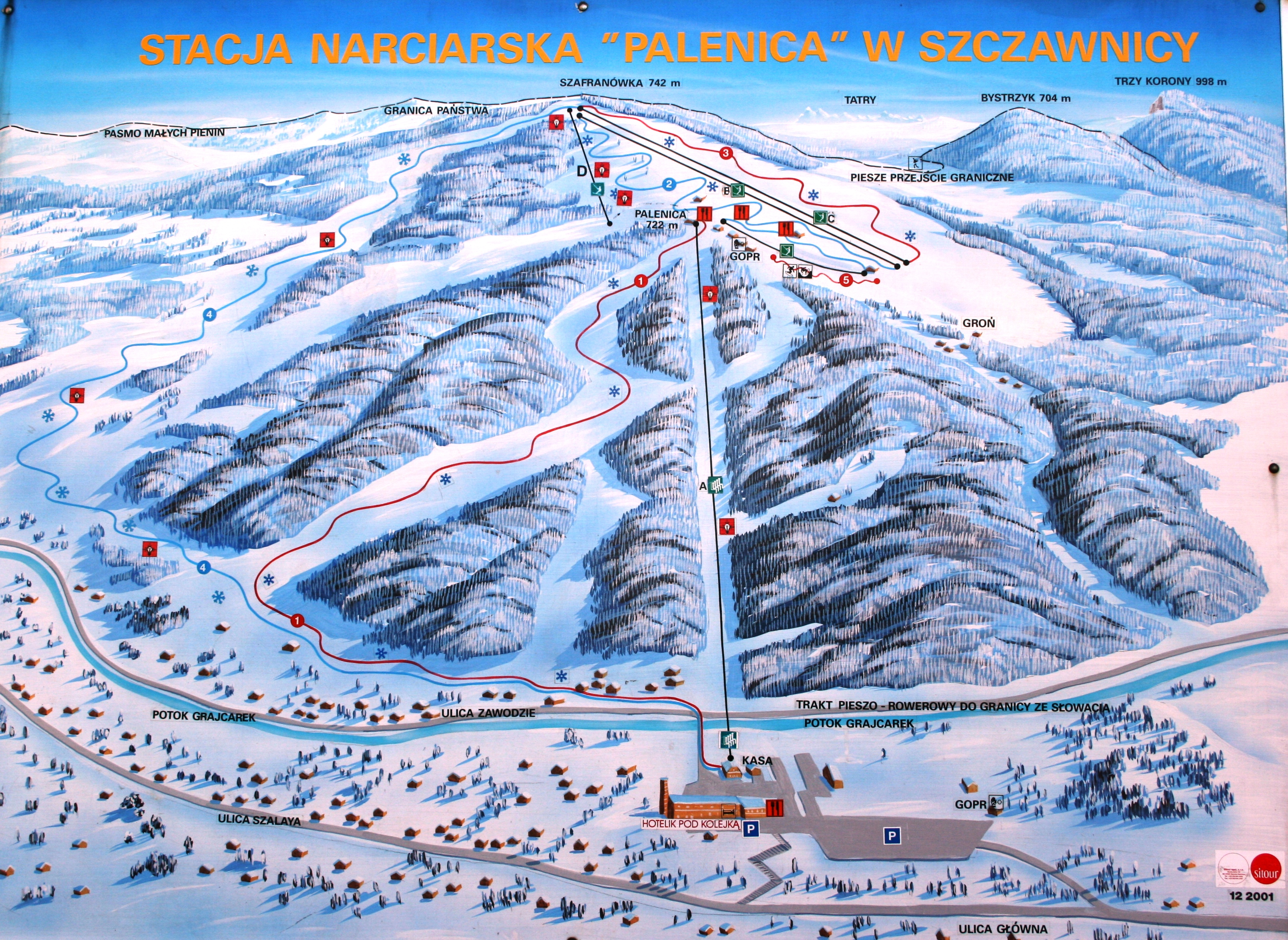 ski trails in Palenica ski area